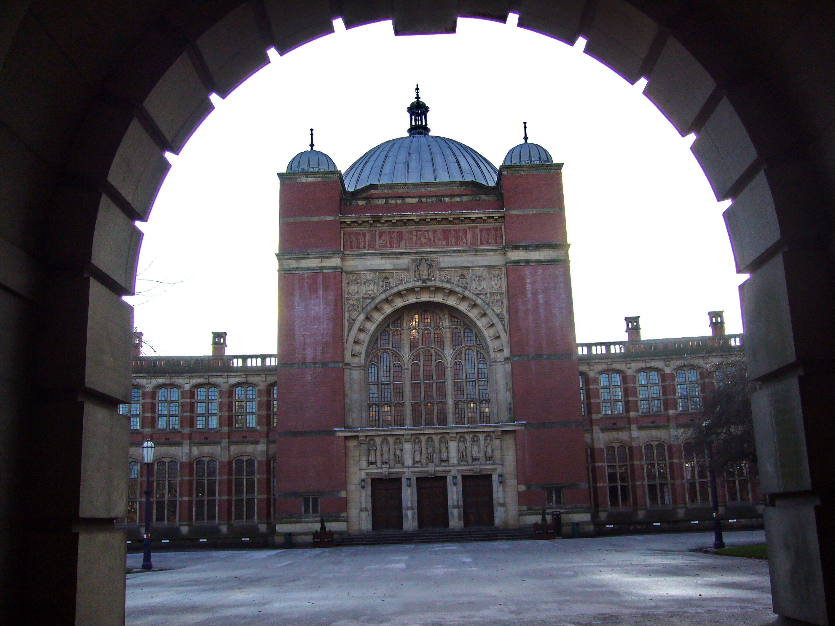 Birmingham University of Birmingham